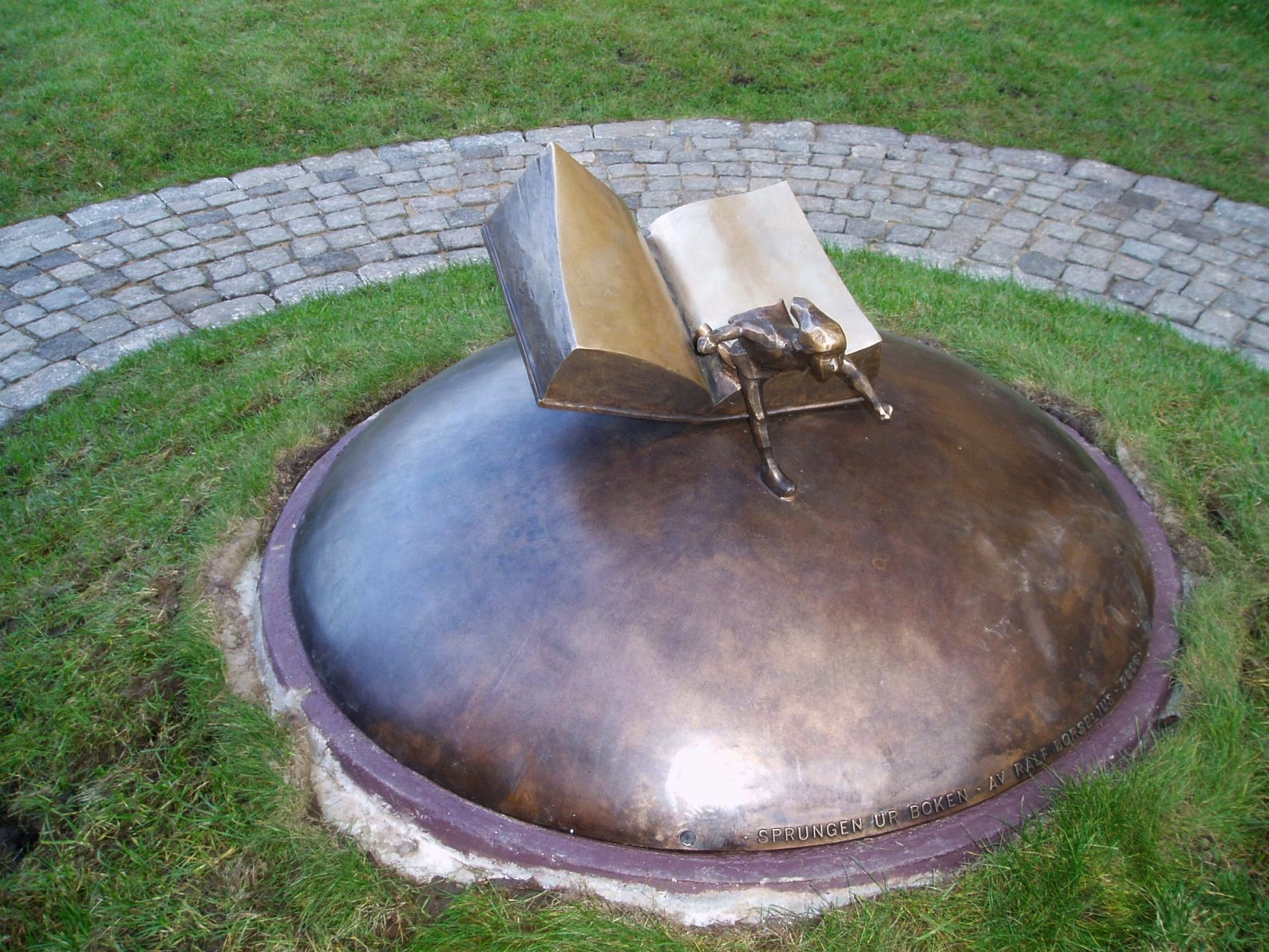 Nils Holgersson, statue made by Ralf Borselius in Karlskrona